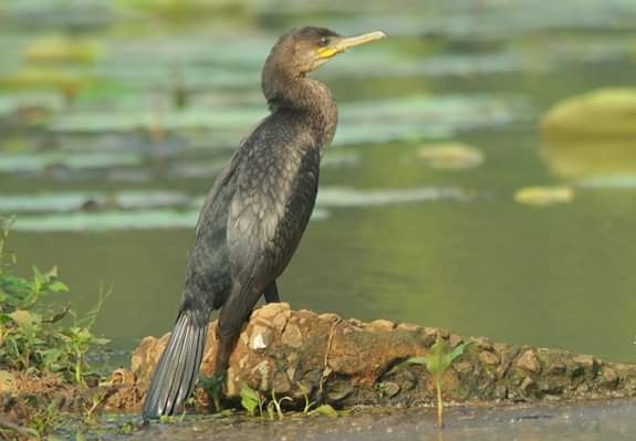 Indian Cormorant ,Indian Shag